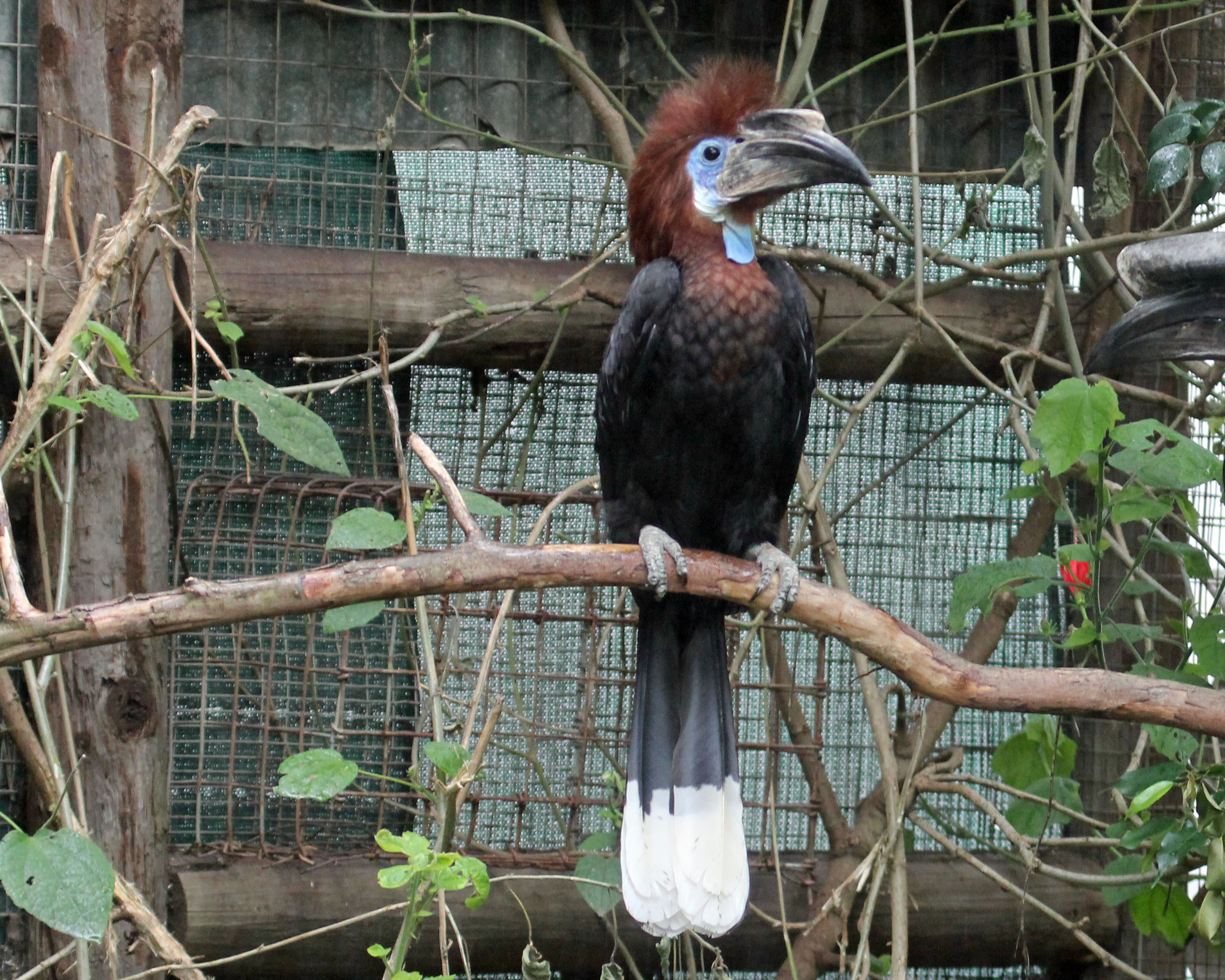 Black-casqued Hornbill (Ceratogymna atrata) at World of Birds Wildlife Sanctuary (an aviary) in Cape Town, South Africa